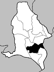 Location of Damaia parish in Amadora municipality. Map created by Brian Boru in December 2005.